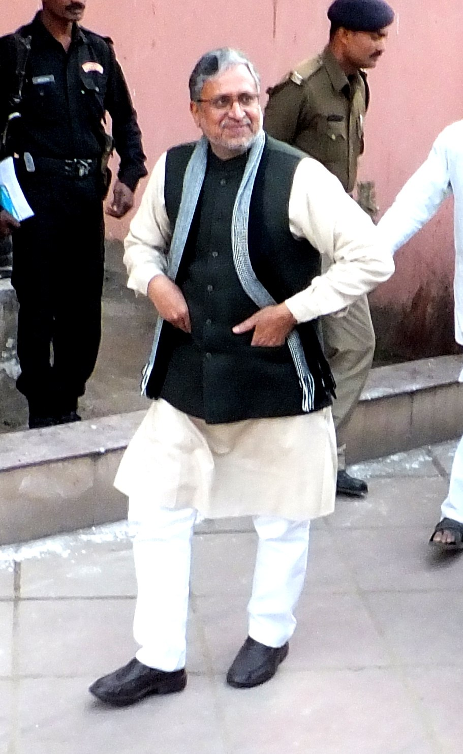 Sushil Kumar Modi, ex-deputy CM of Bihar